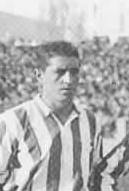 Athletic Club de Bilbao, 1930-31 Spanish League Champions. Line up: Muguerza, Chirri II, Urquizu, Lafuente, Blasco, Ispizúa, Uribe, Unamuno, Castellanos, Bata, R. Echevarría & Gorostiza